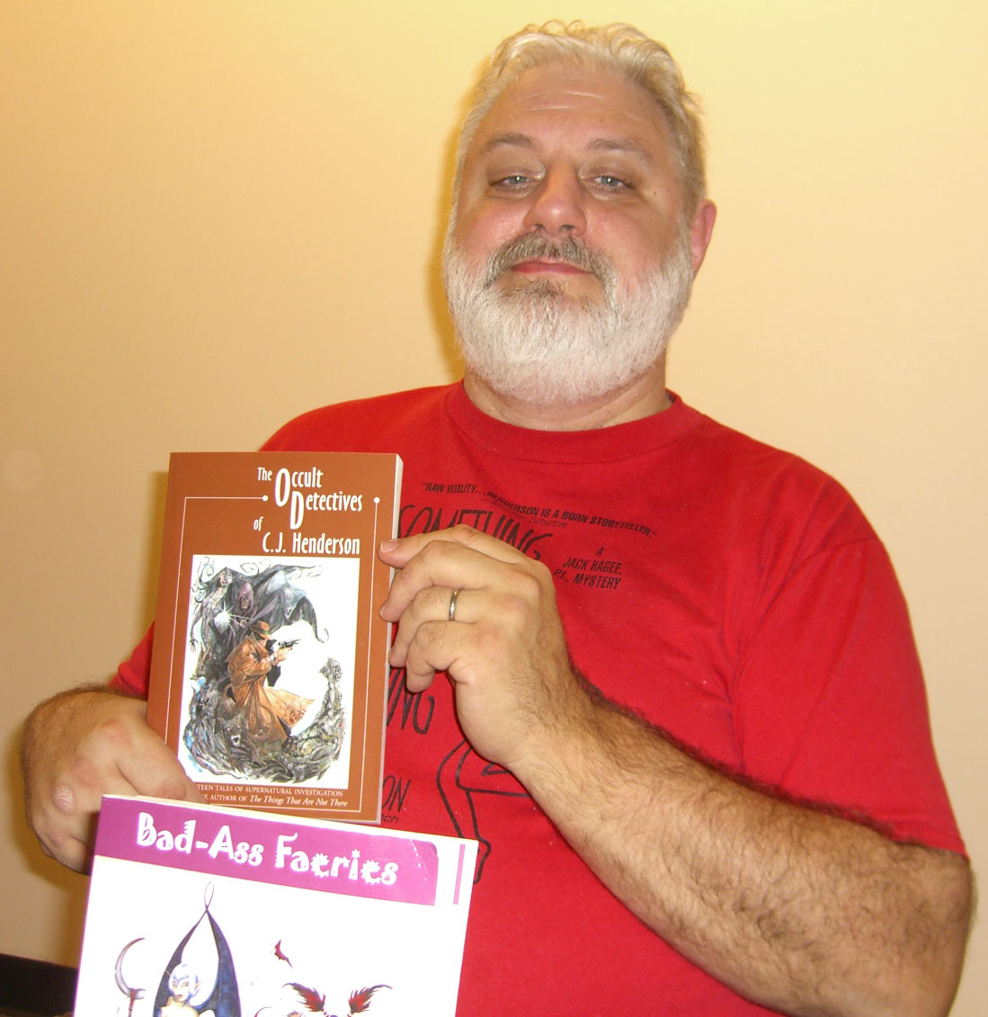 Novelist C.J. Henderson at the November 2008 Big Apple Convention in Manhattan.